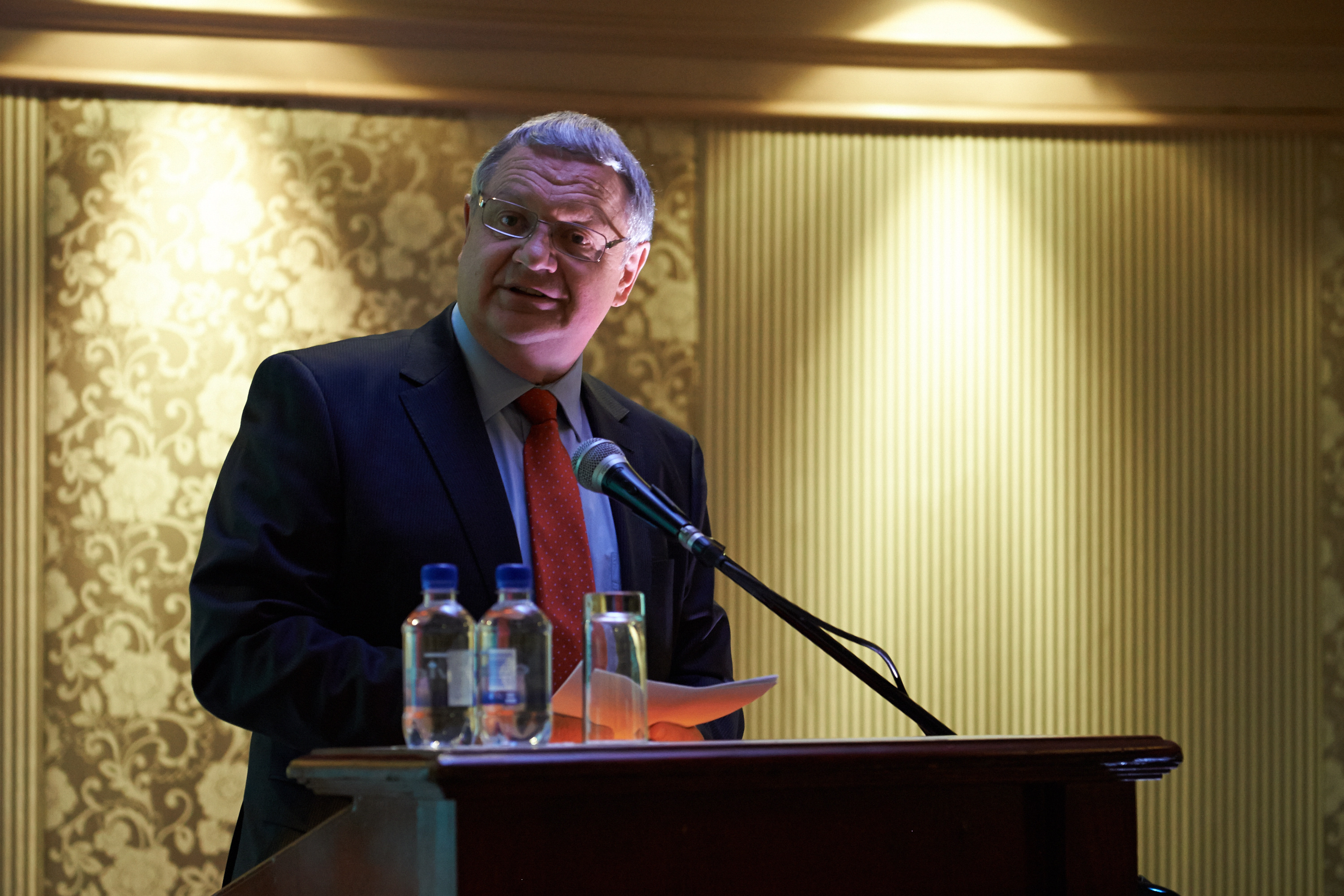 South African Deputy Agriculture Minister Pieter Mulder addresses the audience at the U.S. Department of Agriculture Sub-Saharan Africa Trade Initiative’s Business Round Table in Johannesburg, South Africa on Sep. 16, 2013. Agriculture Deputy Secretary Krysta Harden led a trade mission to Sub-Saharan Africa Business Round Table to promote U. S. agricultural trade and investment in the region, which is a long-term goal of the initiative. The trade mission includes 17 U.S. companies and 15 agricultural trade associations that represent a variety of products such as snack foods, beverages, fruit, nuts, and more. Photo by Blake Woodhams.